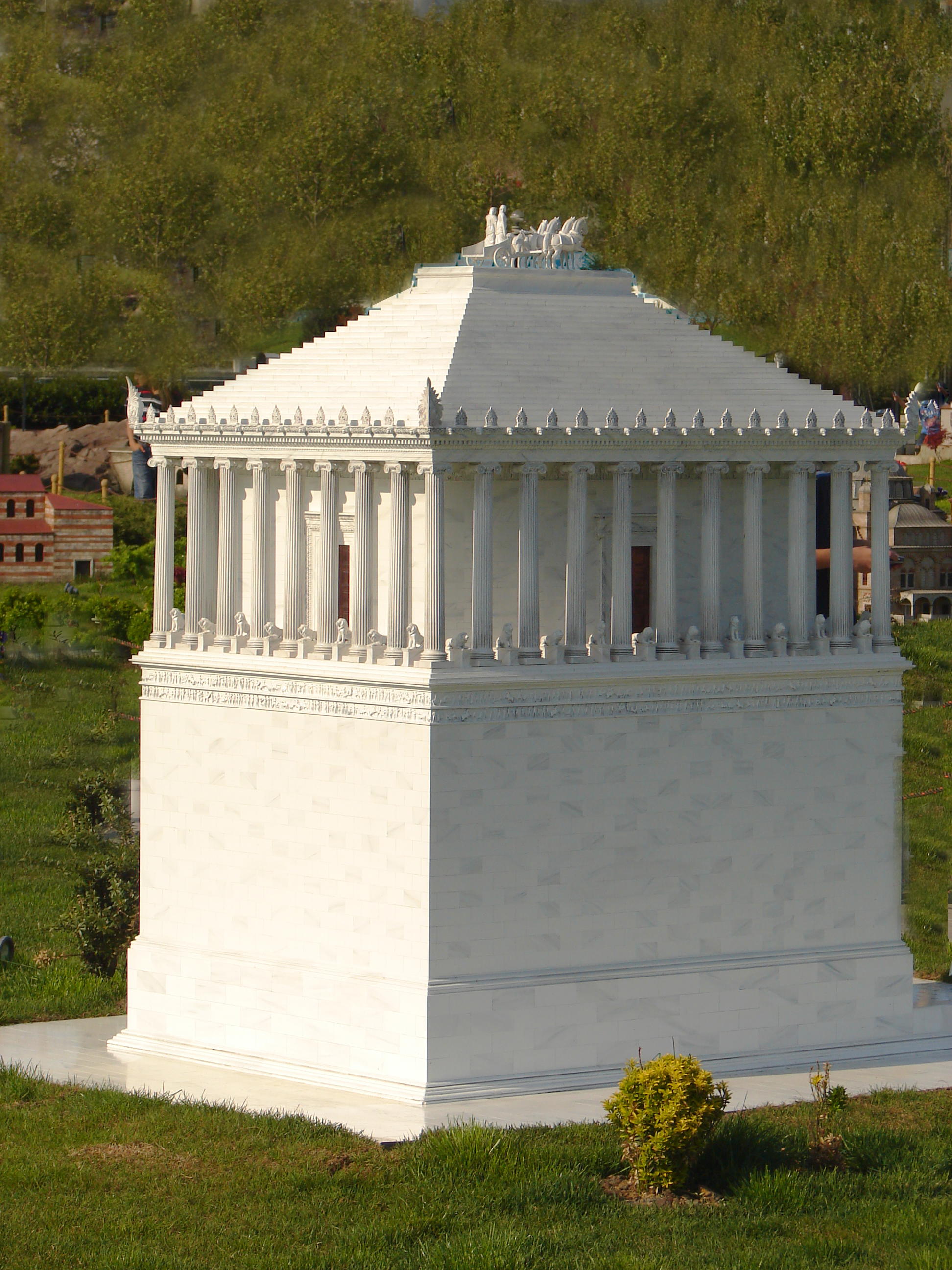 The Mausoleum of Maussollos, or Mausoleum of Halicarnassus was a tomb built between 353–350 BC at Halicarnassus (present Bodrum, Turkey), for Mausolus (in Greek, Μαύσωλος), a provincial king in the Persian Empire, and Artemisia II of Caria, his wife and sister. This model is located at Miniatuk Istanbul. This is a retouched picture, which means that it has been digitally altered from its original version. Modifications: Distracting objects in background cleaned..